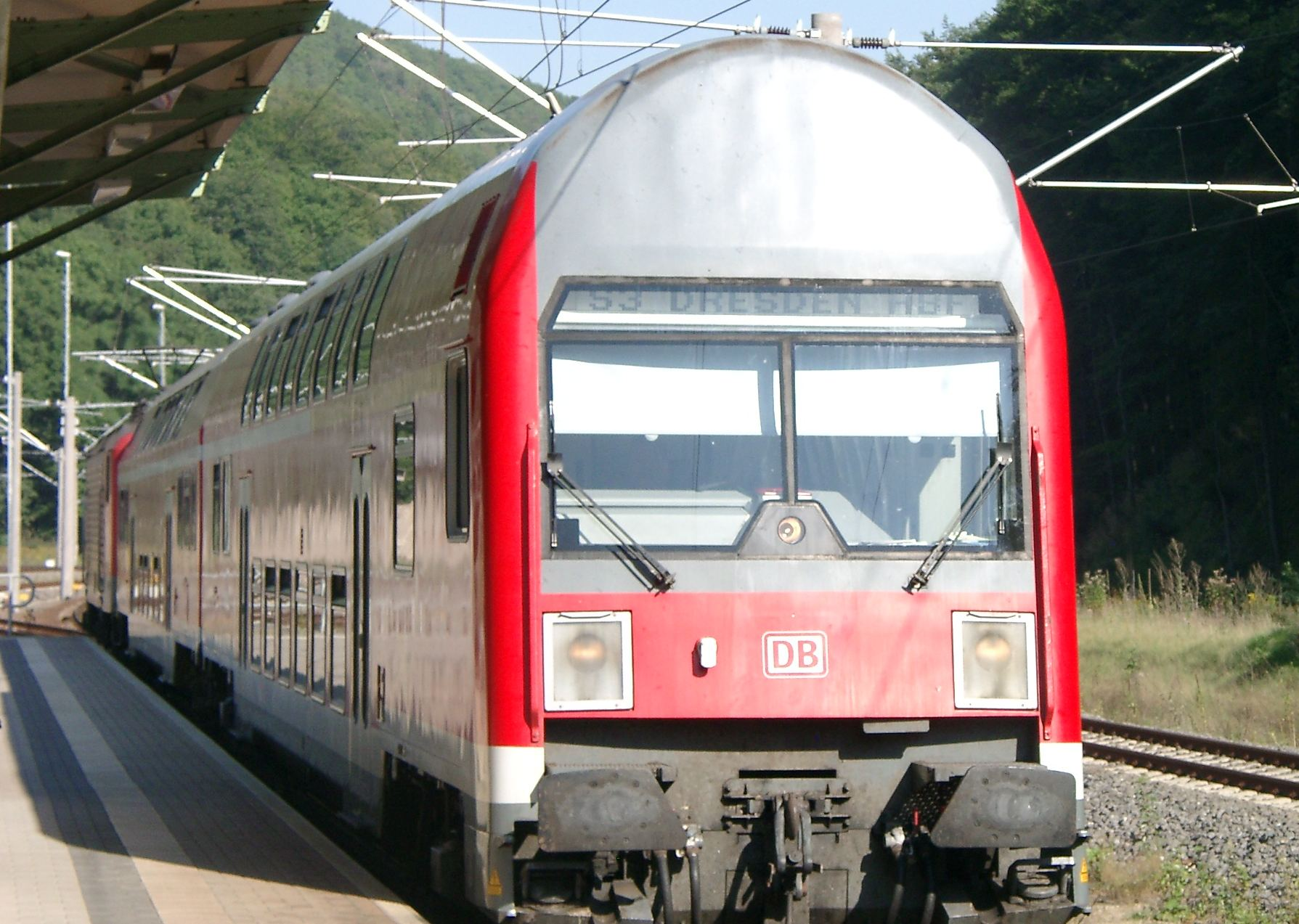 Train in Tharandt (Germany) Line S3